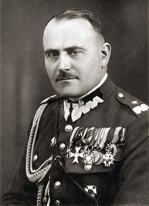 Franciszek Wład (1888-1939) – General of the Polish Army